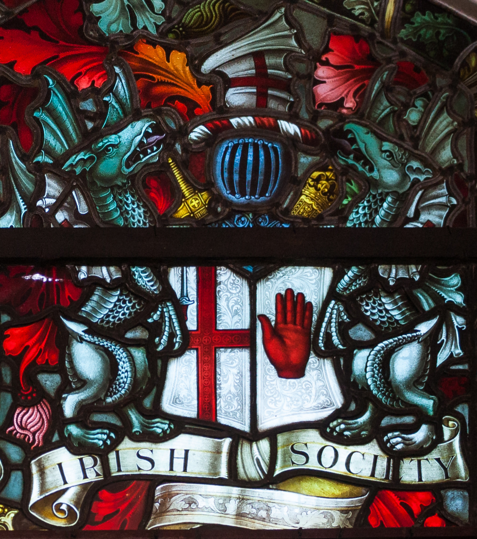 Detail of the memorial window of the Irish Society, erected at its tercentenary (1613–1913), depicting the coat of arms of the Irish Society. Party per pale argent, City of London, and a sinister hand couped gules. The crest and supporters are likewise those of the City of London, the name of the Irish Society is given below.